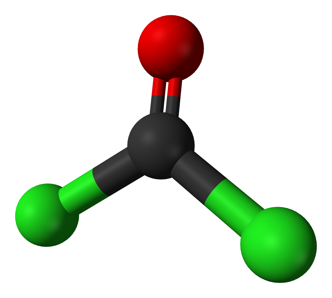 Ball-and-stick model of phosgene, COCl2